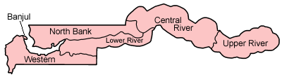 Map of the divisions of the Gambia, numbered in English (native language) alphabetical order. The individual articles are: Banjul (city) Central River Lower River North Bank Upper River Western